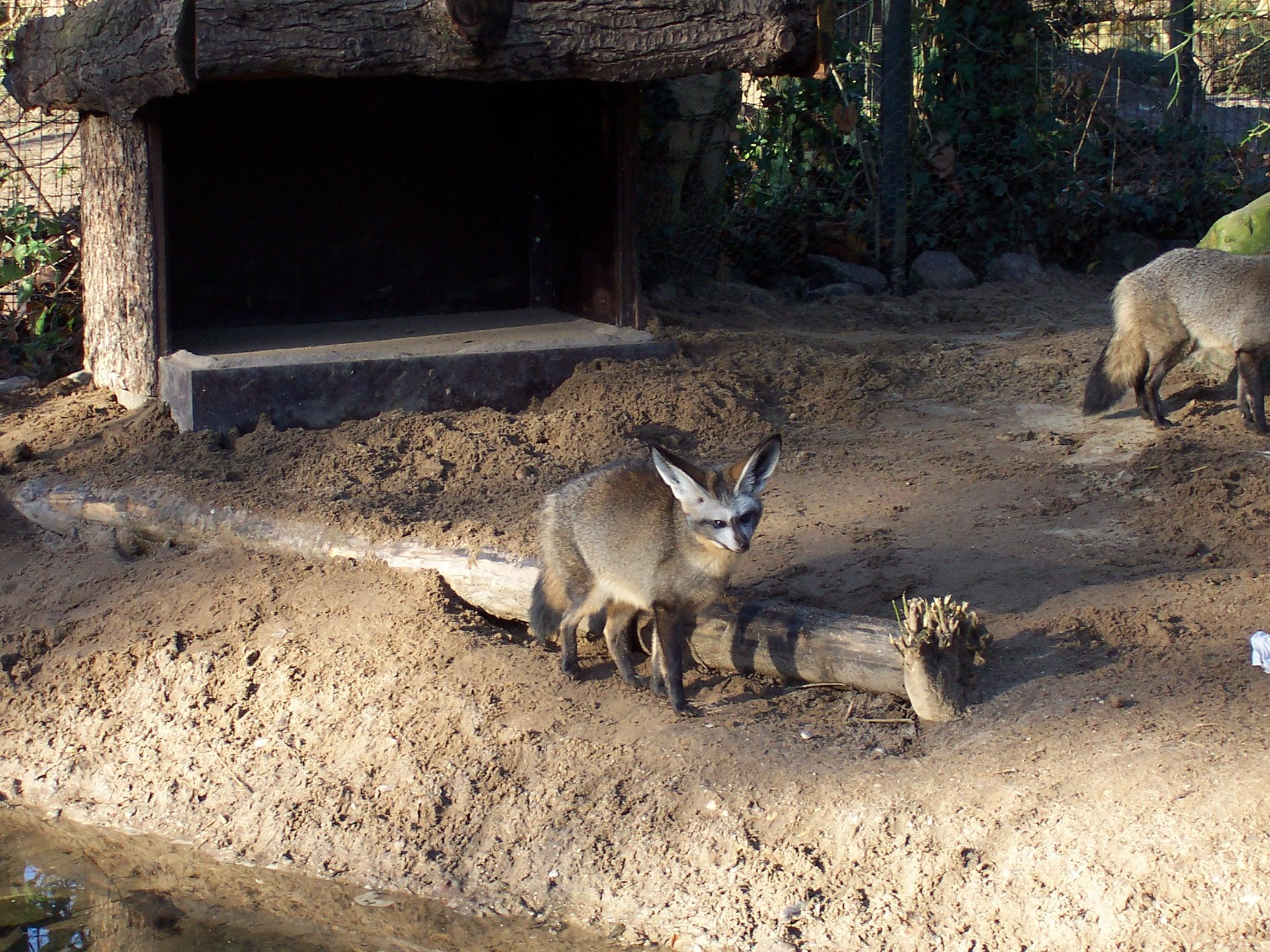 Bat-eared fox (Otocyon megalotis) in Zoo Krefeld, Krefeld, Germany